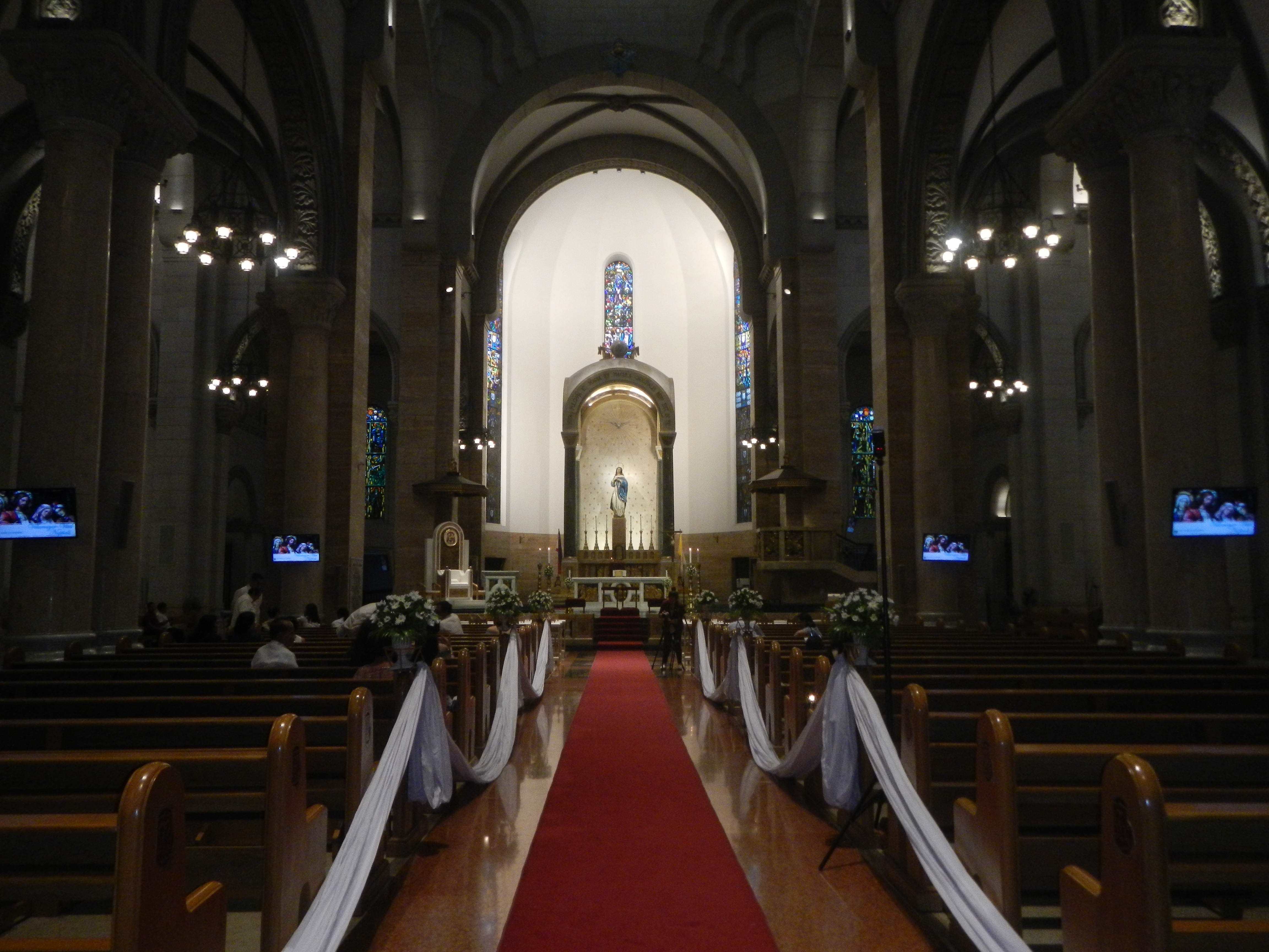 Interior of the Manila Metropolitan Cathedral-Minor Basilica of the Immaculate Conception Chapels of the Manila Metropolitan Cathedral-Minor Basilica of the Immaculate Conception Immaculada of the Manila Cathedral Manila Cathedral 14°35'29"N 120°58'25"E Manila Cathedral Manila Cathedral (A Legacy of Architecture and Faith: 1958-2018 - 60th Anniversary of Post-War II Dedication Exhibit) and 437th Founding Anniversary, 1581; Saints Potenciana-Santo Niño, Jude, Blessed Souls, Baptistry, Joseph-Lorenzo Ruiz, Mary Help of Christians-Our Lady of the Pillar & Pius X-Ina Poon Bato chapels of the Manila Cathedral; Fernando Quiroga Palacios (Note: Judge Florentino Floro, the owner, to repeat, Donor Florentino Floro of all these photos hereby donate gratuitously, freely and unconditionally all these photos to and for Wikimedia Commons, exclusively, for public use of the public domain, and again without any condition whatsoever).